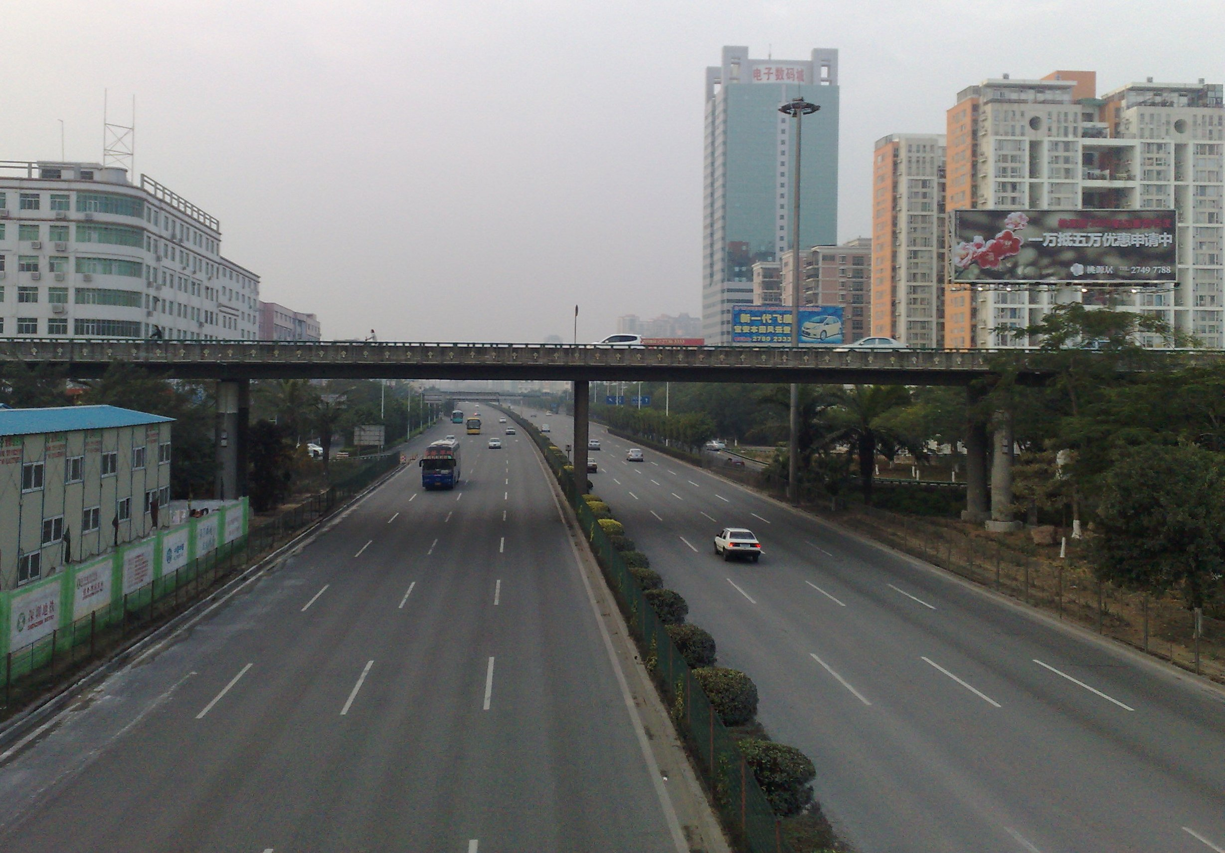 A street in Xin An Sub-district, Bao An, Shenzhen